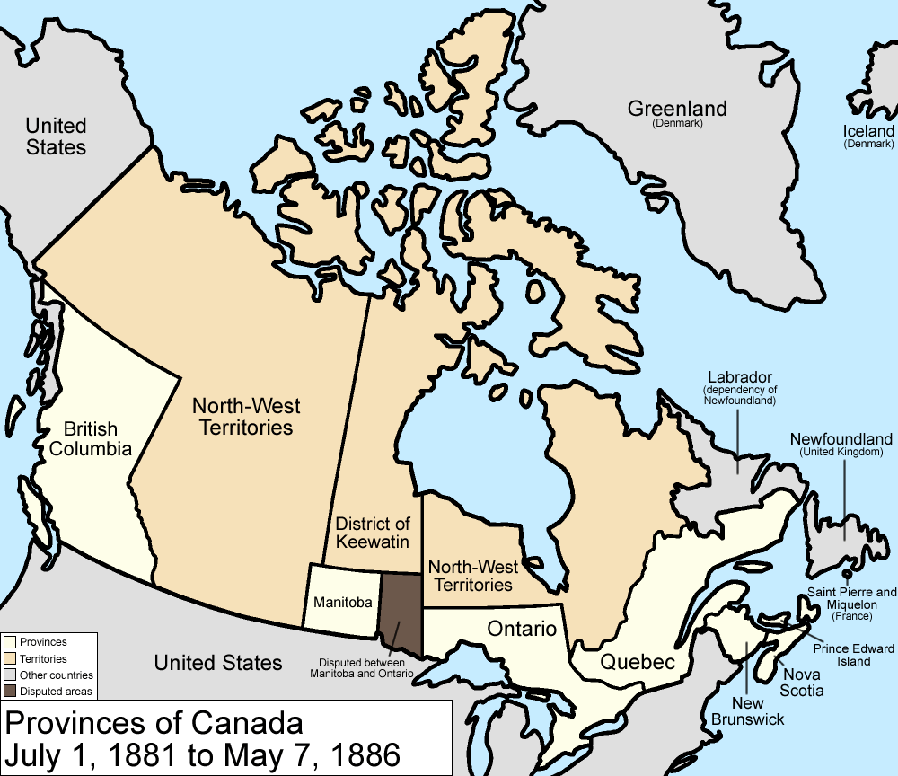 Map of the provinces and territories of Canada as they were between 1881 and 1886. On July 1 1881, Manitoba greatly expanded, using land from the North-West Territories and the District of Keewatin, but a large portion becomes disputed with Ontario. In 1886, the southwestern borders of the District of Keewatin were altered a little, giving a little land to the North-West Territories. Made by User:Golbez.